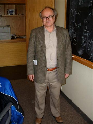 I took the picture at Harvard and declare it public domain. Lubos Motl (Lumidek)